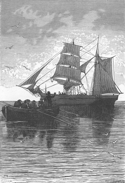 An ilustration from "Dick Sand, A Captain at Fifteen" by Jules Verne painted by Henri Meyer.